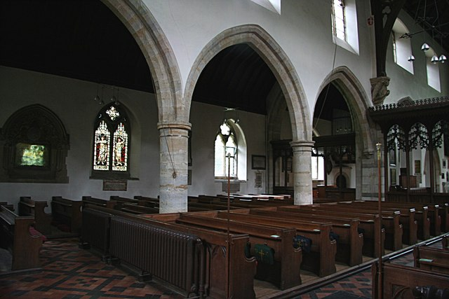 North Arcade, near to Penshurst, Kent, Great Britain. Thirteenth century north arcade in St.John the Baptist's church